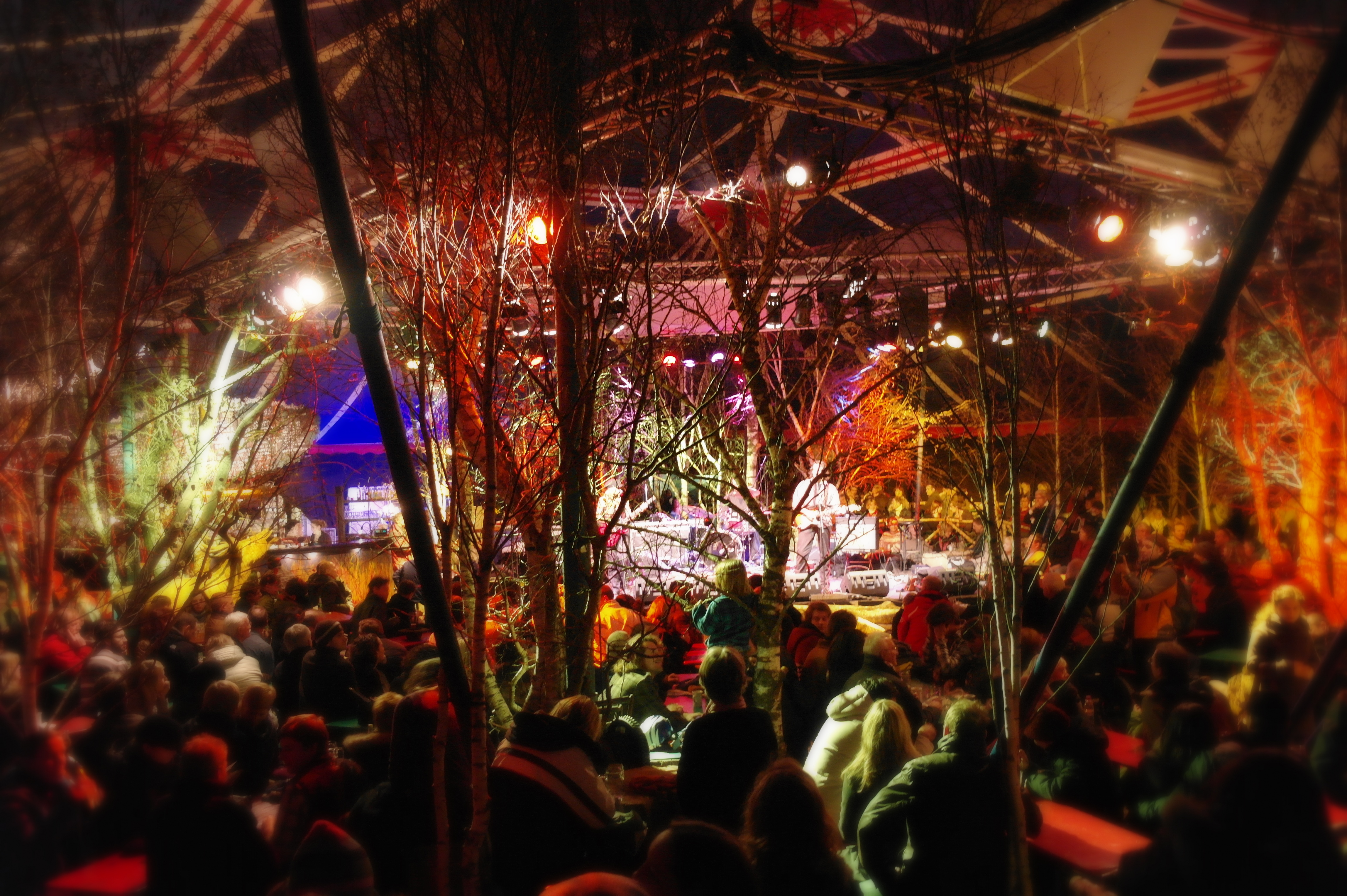 Deep-in-the-woods bar at Tollwood Winter Festival 2010 in Munich.